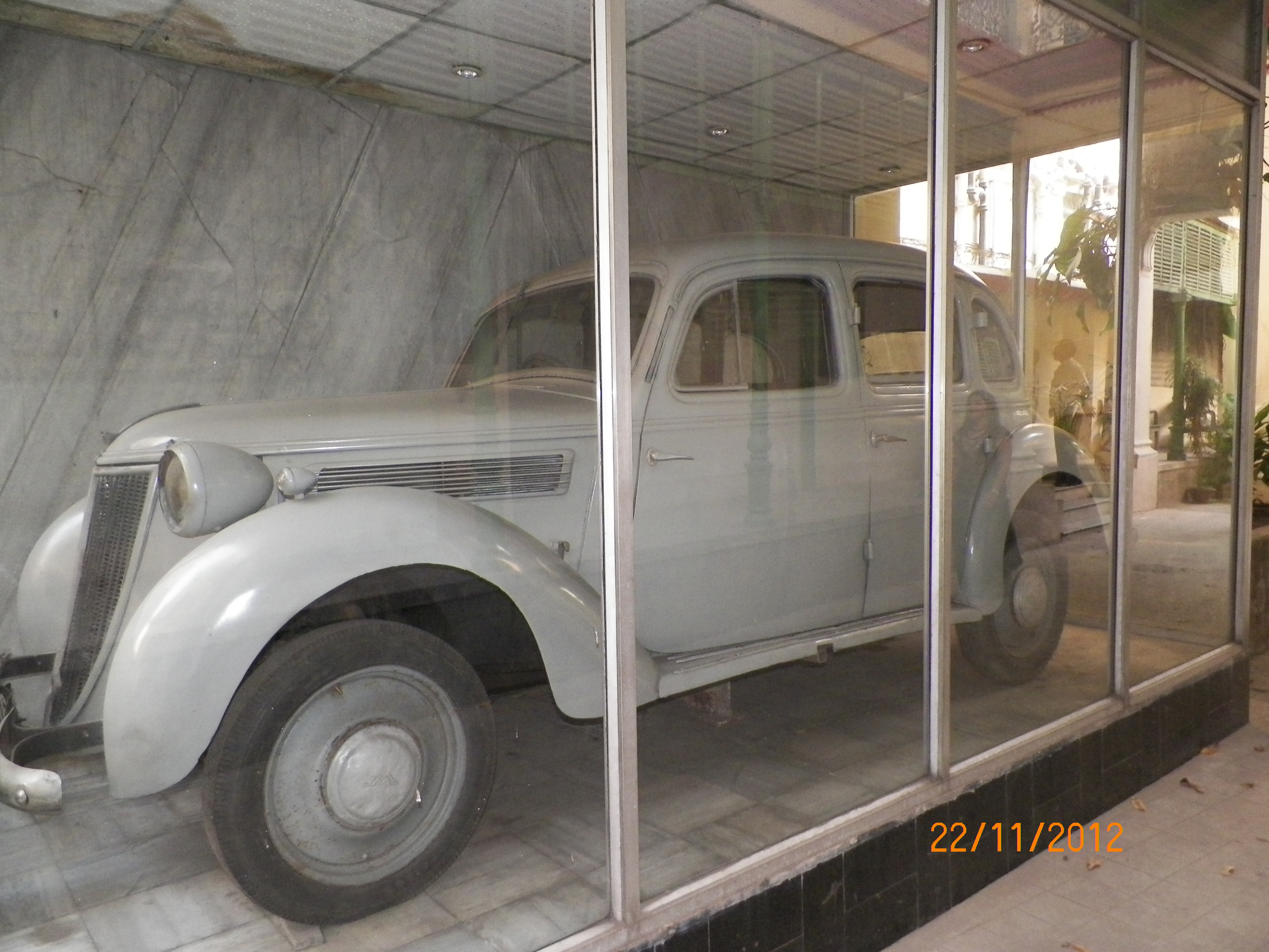 The car Mr. Subhash Bose fled in. It is kept at his house (now museum) in Kolkata